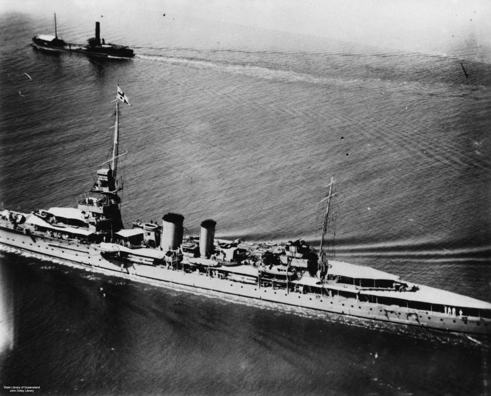 Delhi (ship)